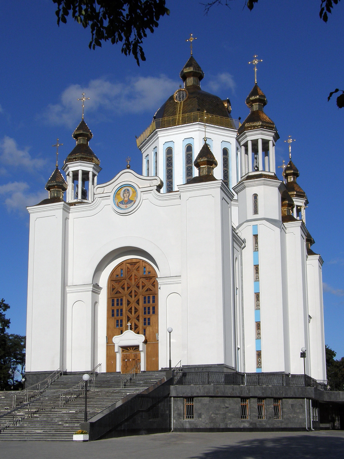 Rivne, rovno